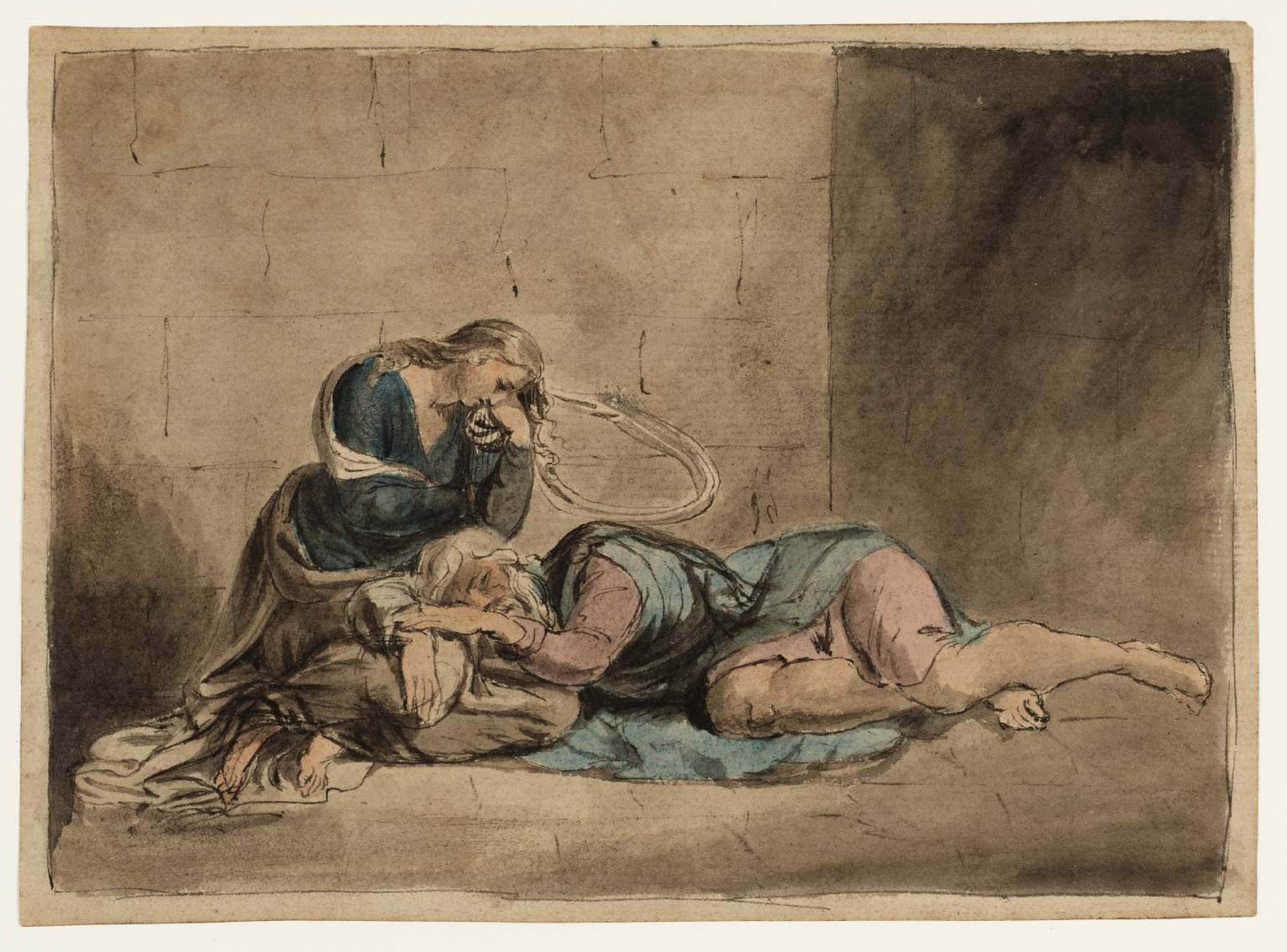 Lear and Cordelia in Prison c1779 N 05189 B 53 Pen and watercolour 123×175 by William Blake